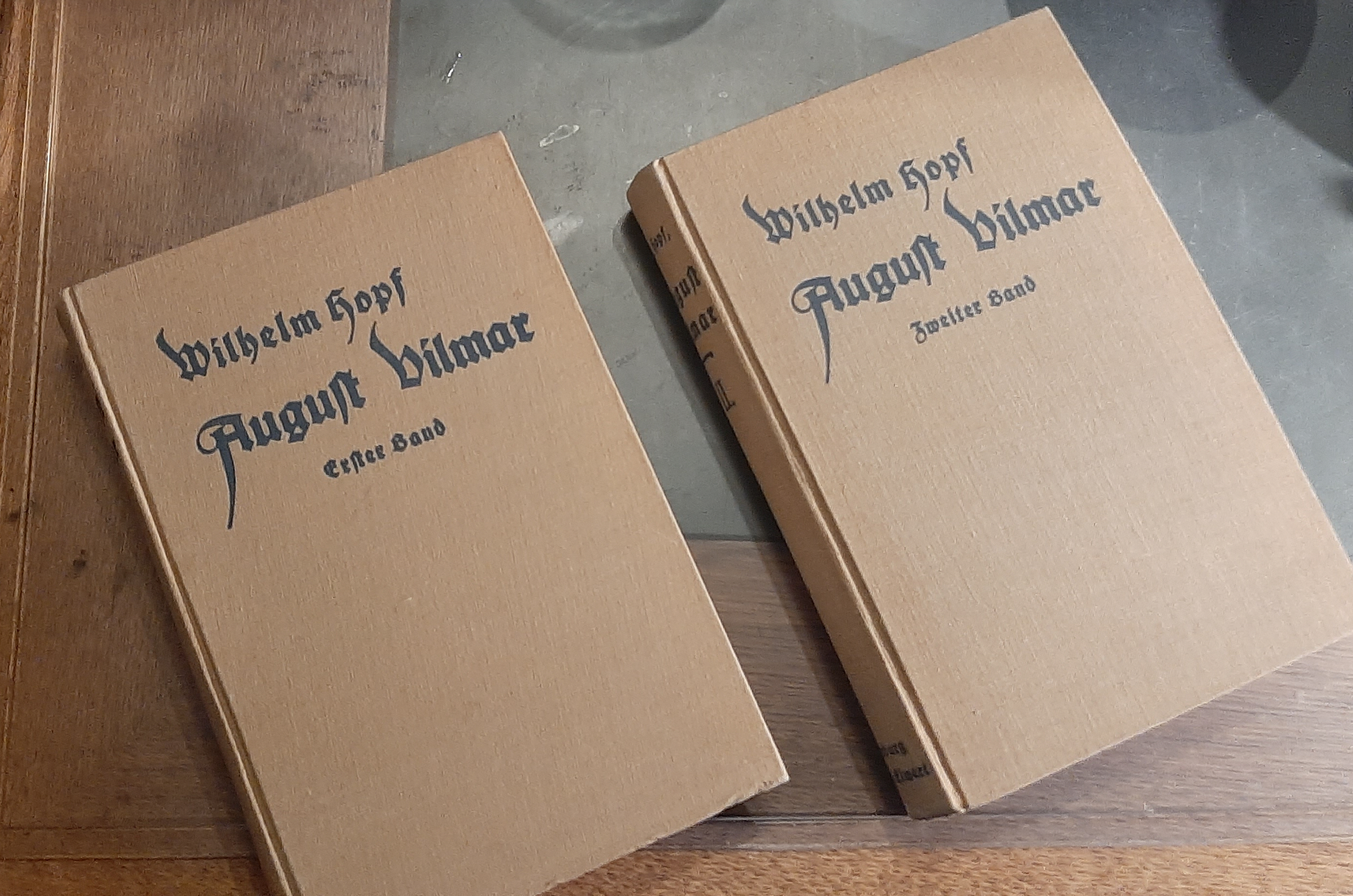 Two Volumes by Wilhelm Hopf about August Vilmar, Marburg 1913